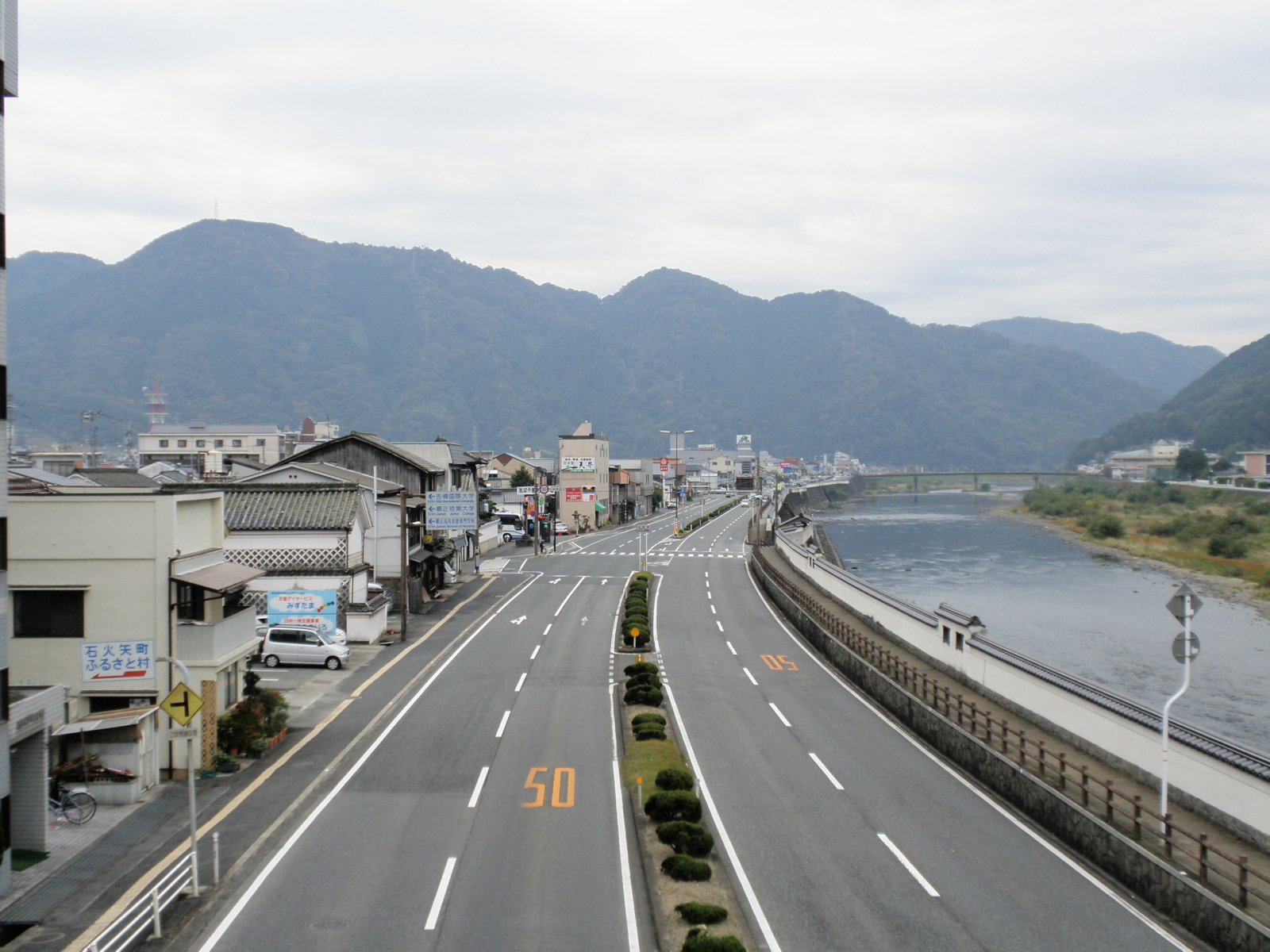 Central Takahashi.